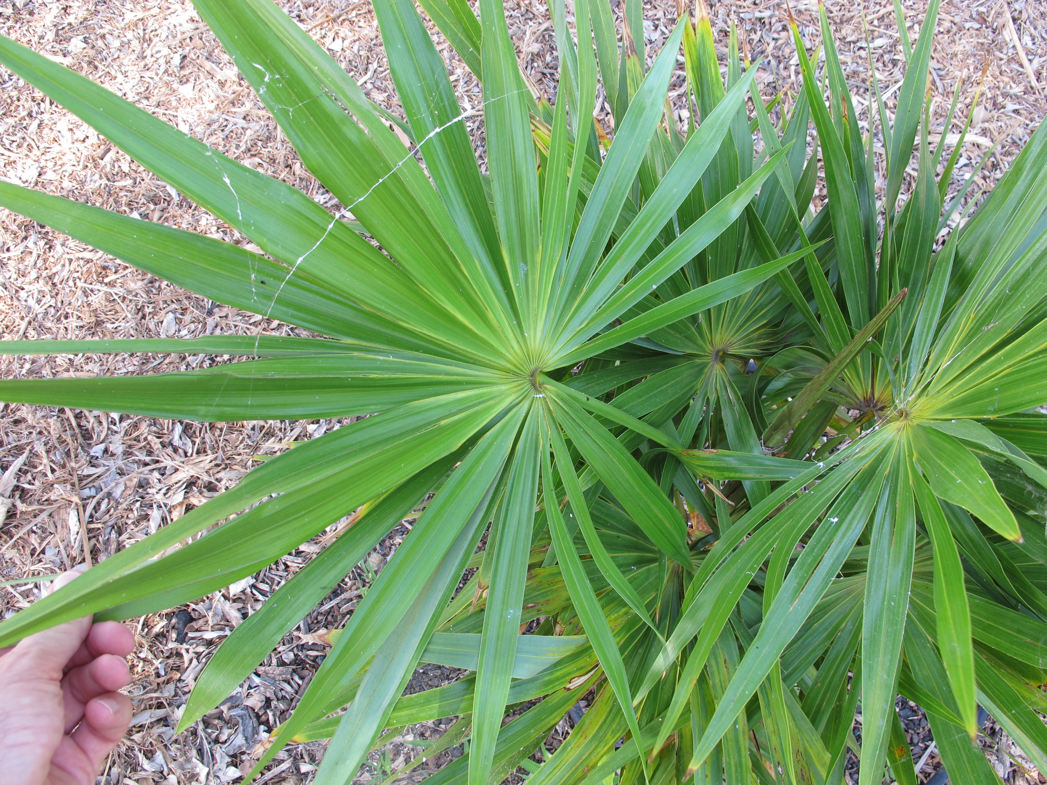 Palmetum de Santa Cruz, Tenerife, Spain.